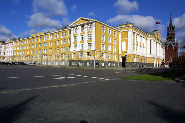 Moscow, the Kremlin. Building 14 (The Presidium).